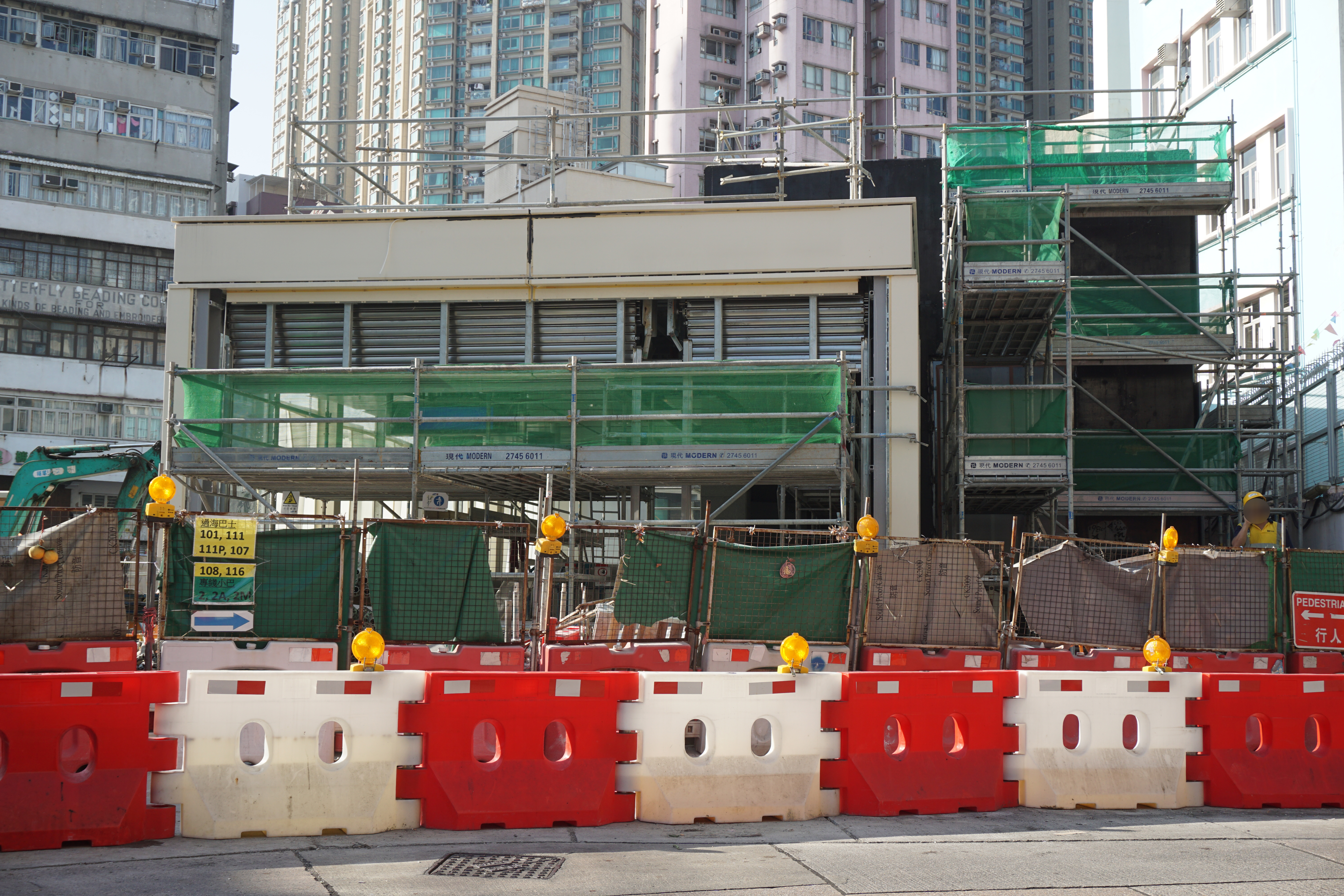 To Kwa Wan Station in To Kwa Wan, Hong Kong.